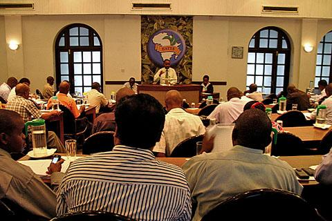 Etiquette in the auction room is strict, with ties required for brokers and collared shirts for buyers, at the Mombasa Tea Auction in Mombasa, Kenya, February 14, 2012.